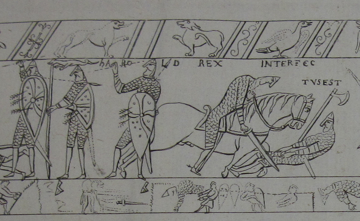 Anglo-Norman Antiquities considered, in a Tour through part of Normandy", by Doctor Ducarel. London, 1767. "The following Plates were published by the learned father Bernard de Montfaucon, in his work entitled Les Monumens de la Monarchie Françoise..